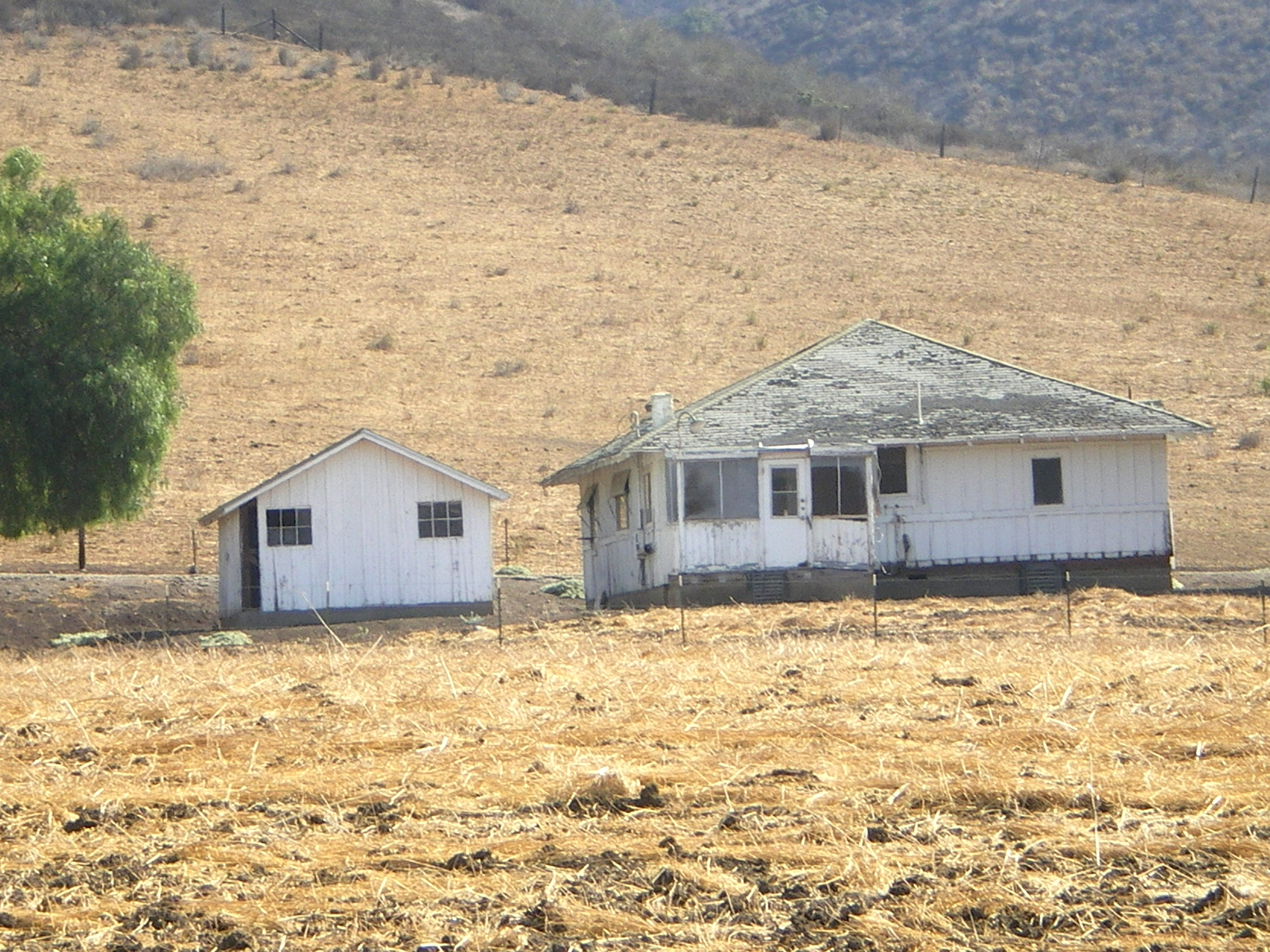 Historic wooden ranch house and building — at the Joel McCrea Ranch regional park in the Santa Monica Mountains. Located at 4500 N. Moorpark Road, in Thousand Oaks, Ventura County, Southern California. Part of the Conejo Recreation and Park District system, in the Santa Monica Mountains National Recreation Area.